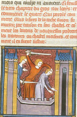 Murder of Guy de Roche-Guyon. (British Library, Royal 16 G VI f. 288)